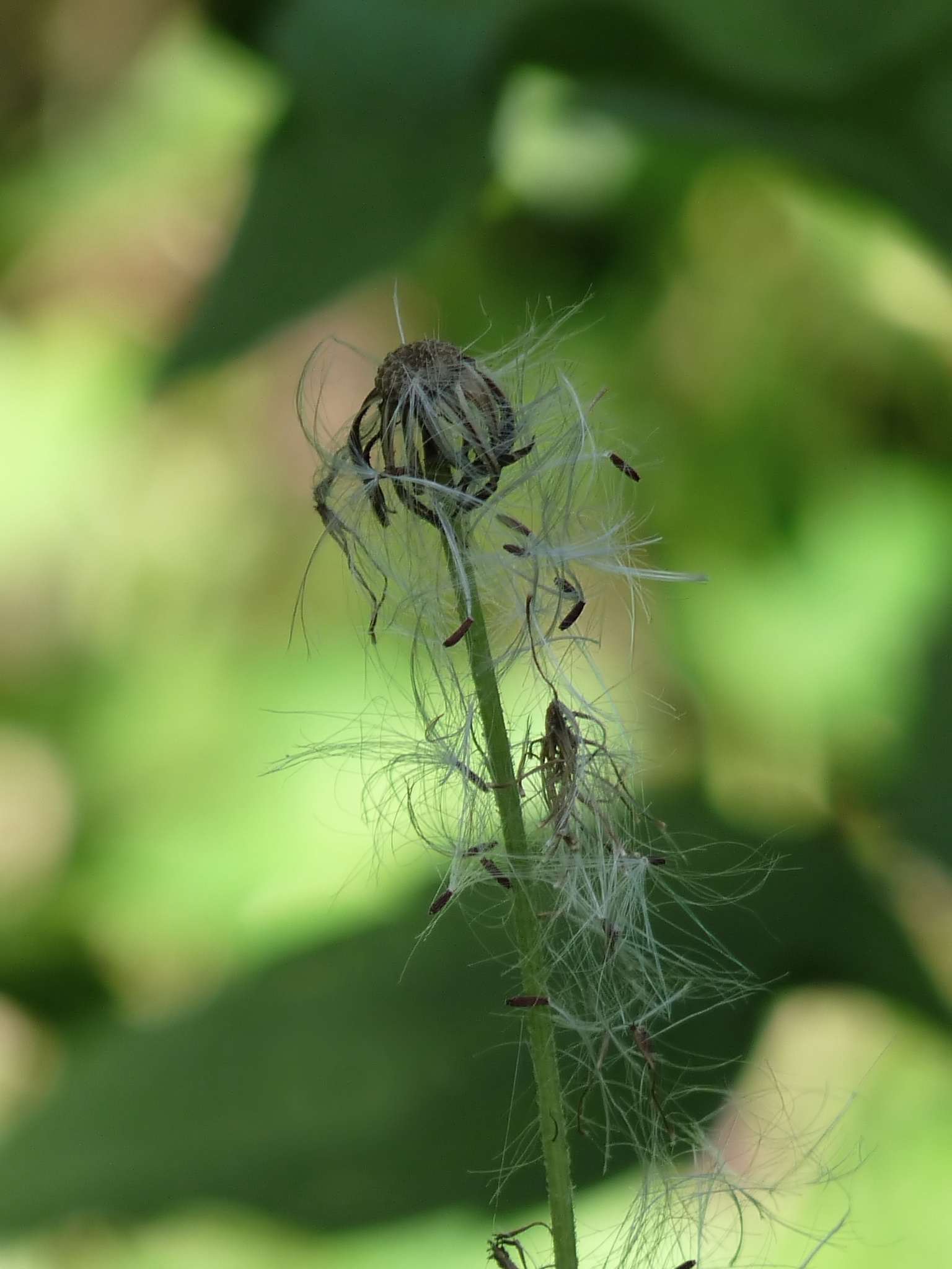 Crassocephalum crepidioides (Syn. Gynura crepidioides), also called ebolo, thickhead, redflower ragleaf, or fireweed, is an erect annual slightly succulent herb growing up to 180 cm tall. Its use is widespread in many tropical and subtropical regions, but is especially prominent in tropical Africa. Its fleshy, mucilaginous leaves and stems are eaten as a vegetable, and many parts of the plant have medical uses. However, the safety of internal use needs further research due to the presence of plant toxins. Flowerheads are cylindrical, green, with red florets visible on top. Seeds are floating balls of numerous silky white hair, which kids in India call by names equivalent to 'old lady' in different languages. Thickhead is native to tropical Africa, but now naturalized in India and South East Asia. C. crepidioides contains the hepatotoxic and tumorigenic pyrrolizidine alkaloid, jacobine.